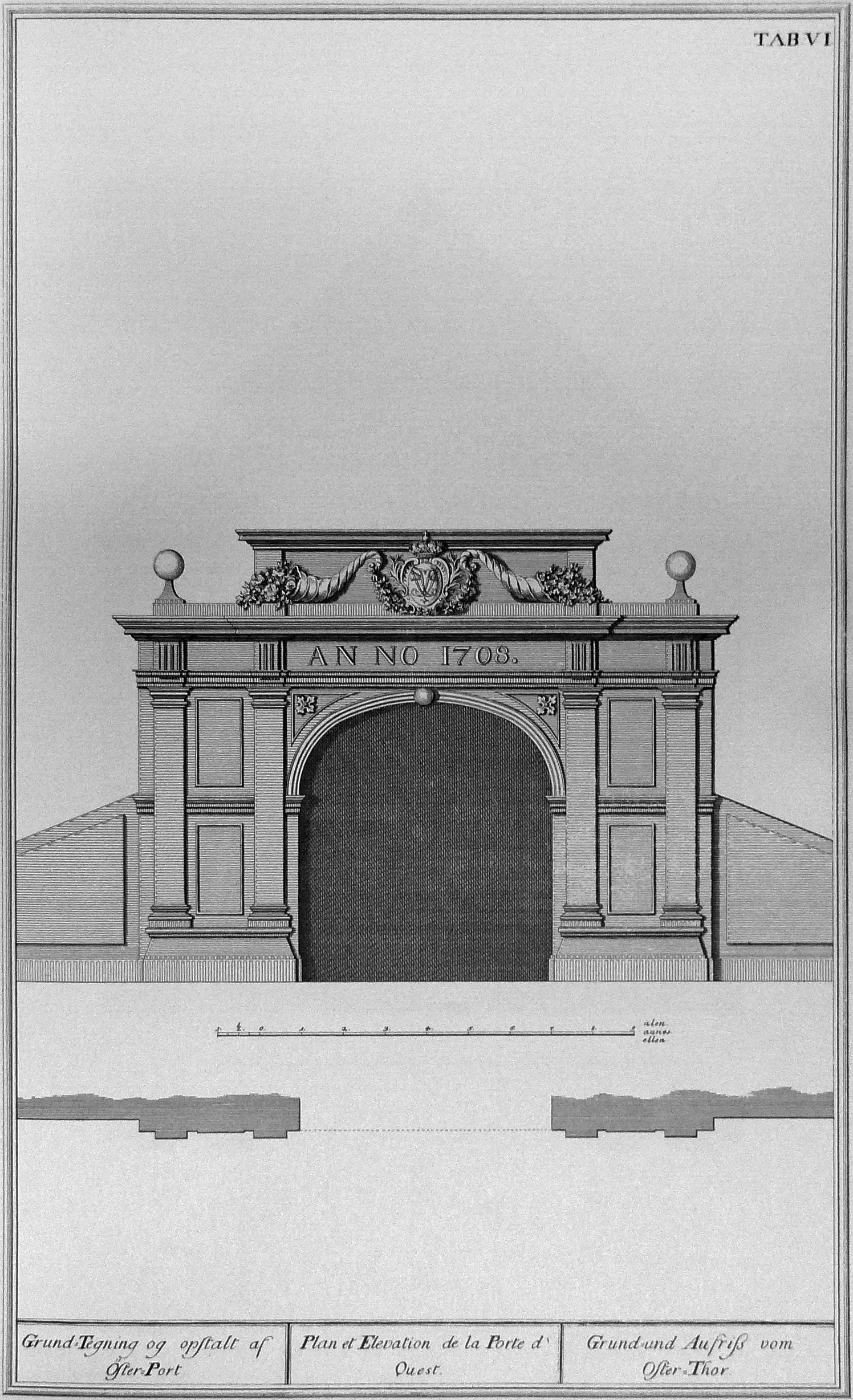 Plan and elevation of Østerport, town gate of Copenhagen